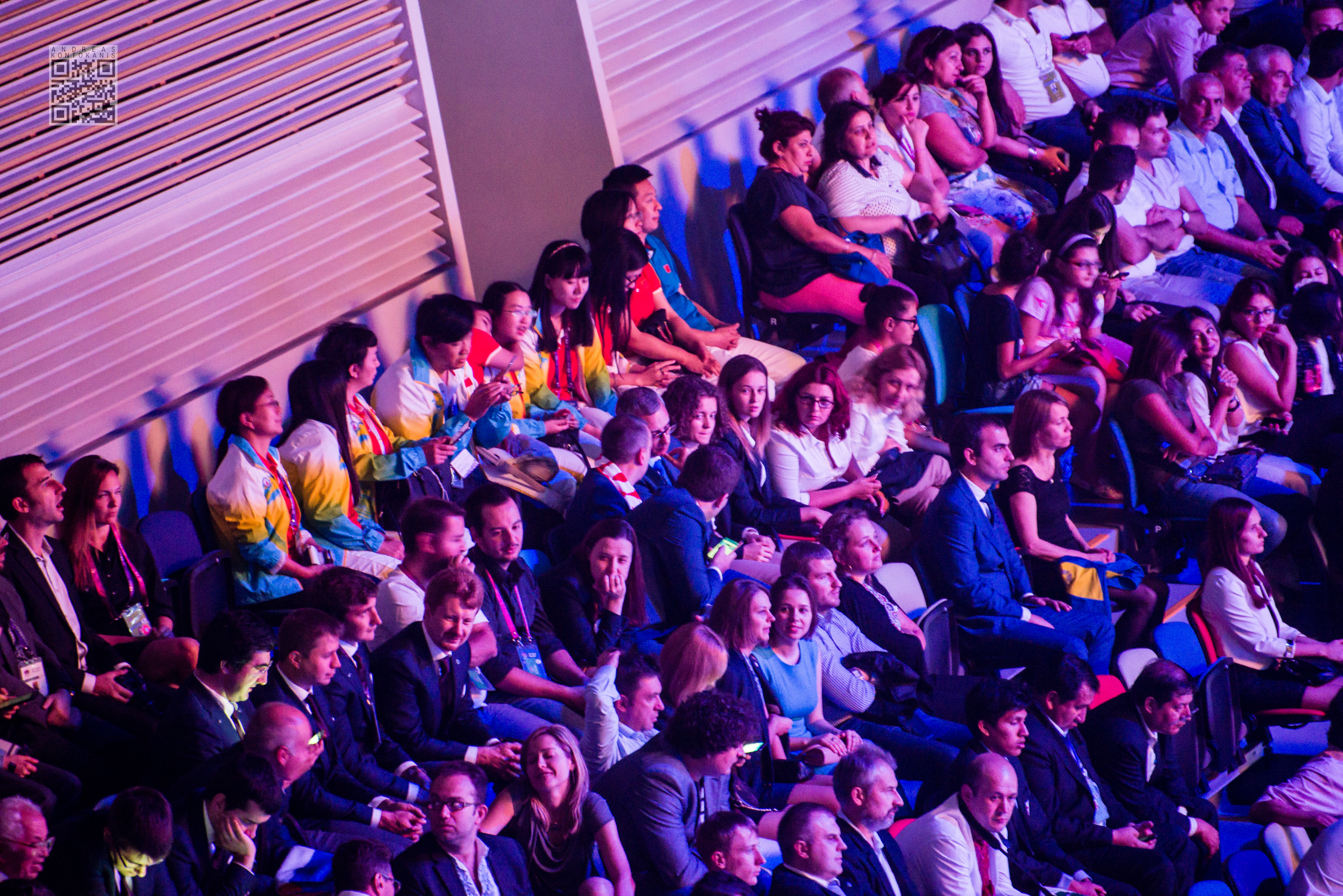 closing ceremony